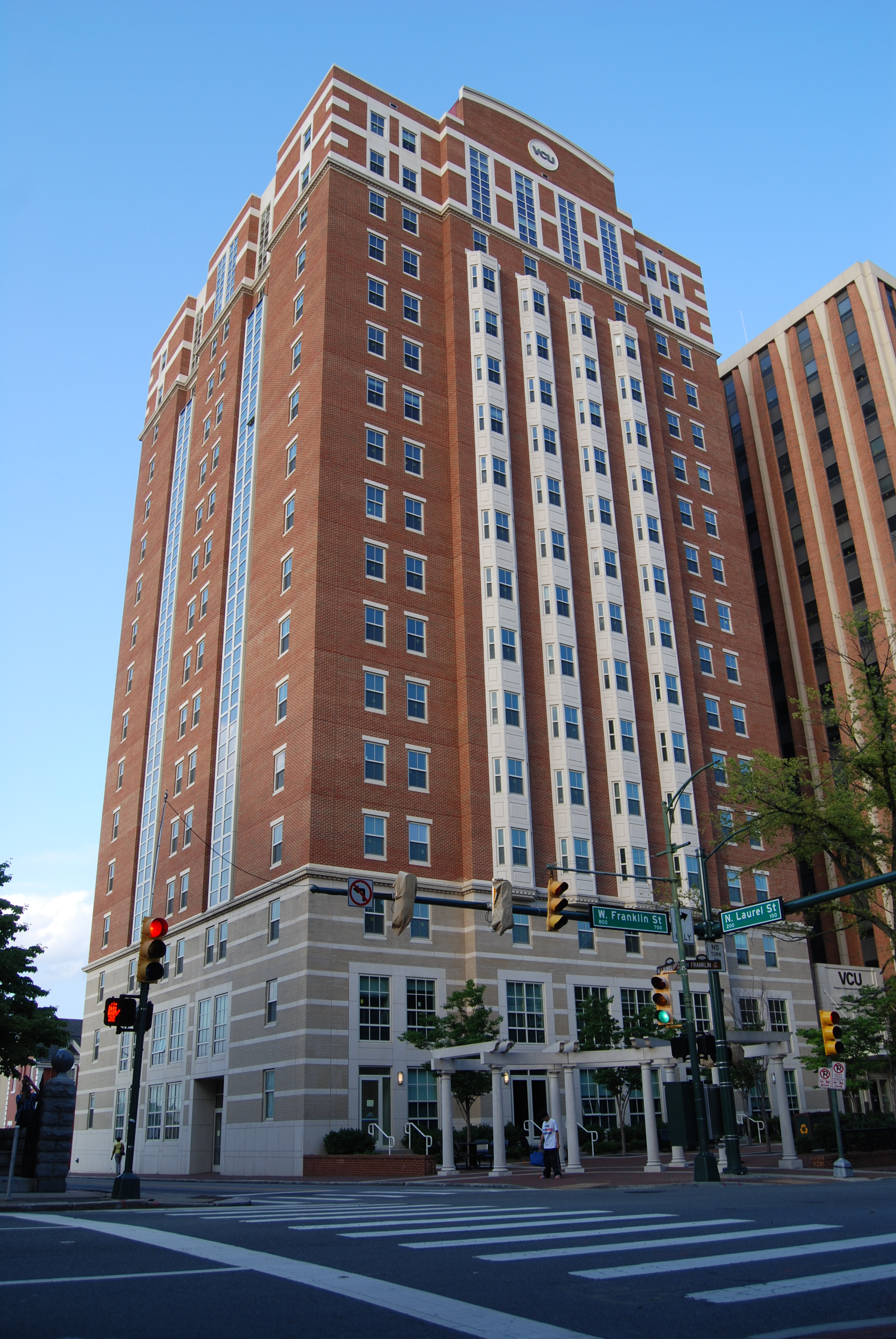 VCU Brandt Hall Student Housing. Photo by Jeff Auth